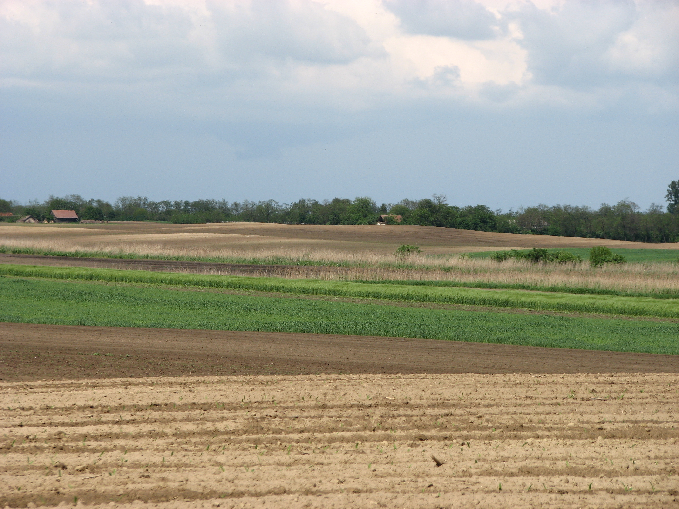 Landscape with sandy dunes in the Eastern territories of Hajdúdorog, Hungary. (On the borders of the Nyírség area)